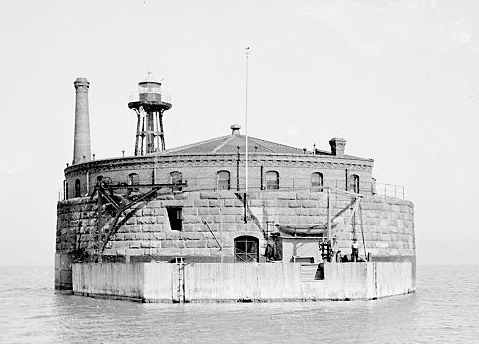 exterior view of the Carter H. Harrison Water Intake Crib two miles from the shore in Lake Michigan, 1910.